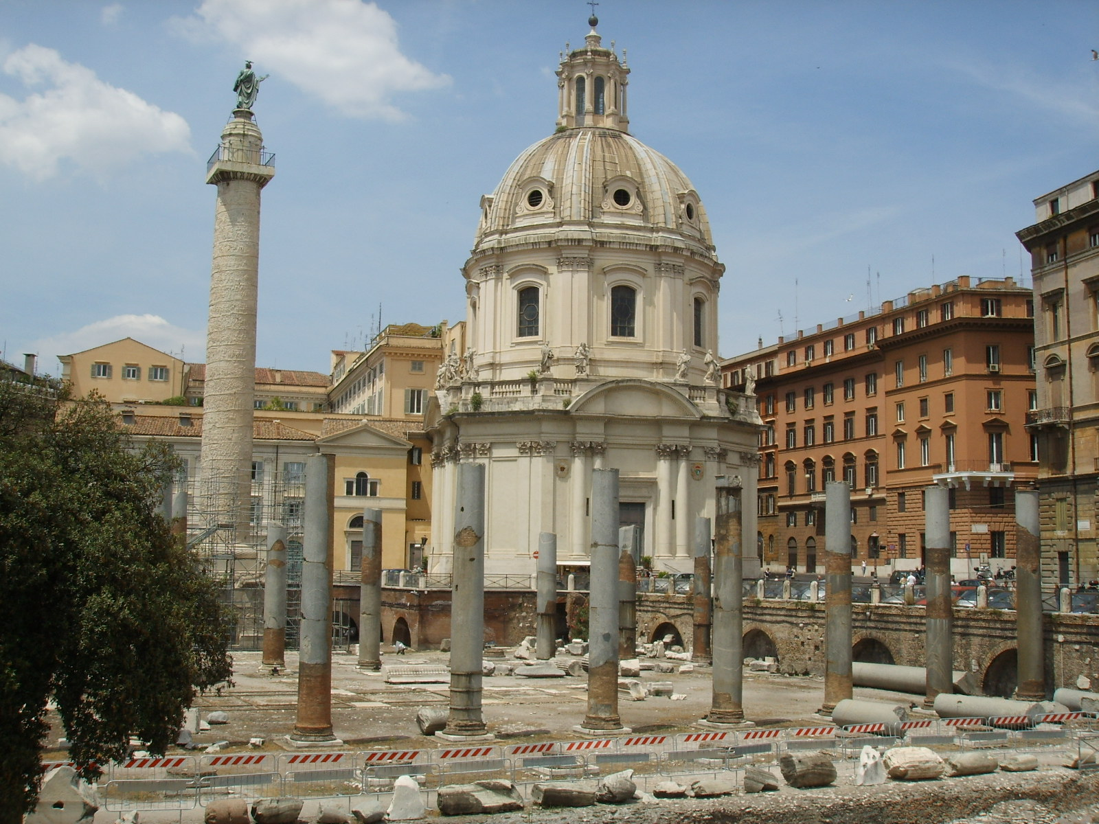 Foro, Traiano area, in Rome, Italy